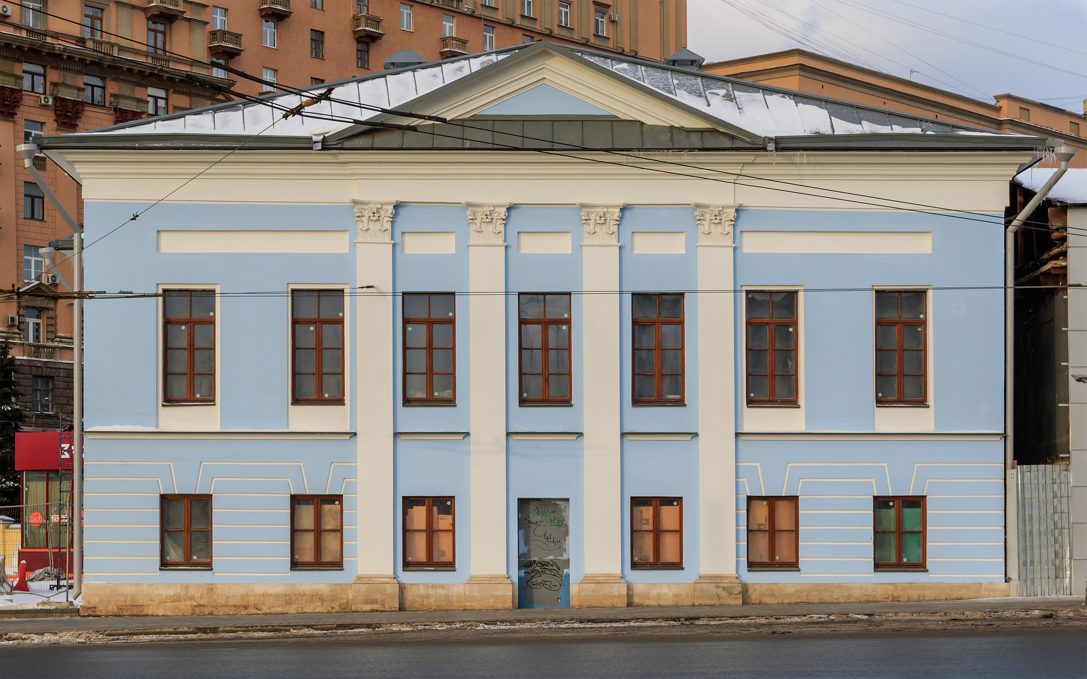 Former Kolesnikov Mansion in Moscow, Russia